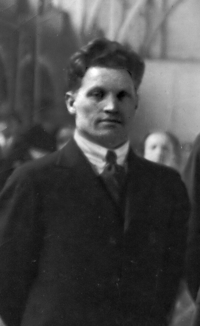 Ice hockey trainer Guðmundur "Gordon" Sigurjónsson of the Winnipeg Falcons representing the Canadian national ice hockey team at the 1920 Summer Olympics in Antwerp, Belgium. The picture is a crop out of a larger team photo taken inside the ice rink Palais de Glace d'Anvers. The ice hockey tournament at the 1920 summer Olympics took place between April 23 and April 29. The canadian team won gold medals at the games.